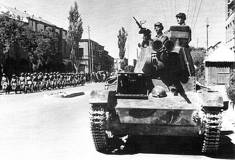 Soviet tankmen of the 6th Armoured Division drive through the streets of Tabriz on their T-26 battle tank.